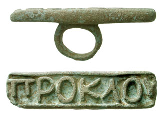 BYZANTINE. Bronze Bread Stamp. Circa 7th-8th century AD. Length 85mm. A bronze stamp seal with ring handle and the name PROKLOU impressed on it. Used for marking a merchant's wares in the marketplace, as a guarantee of quality.